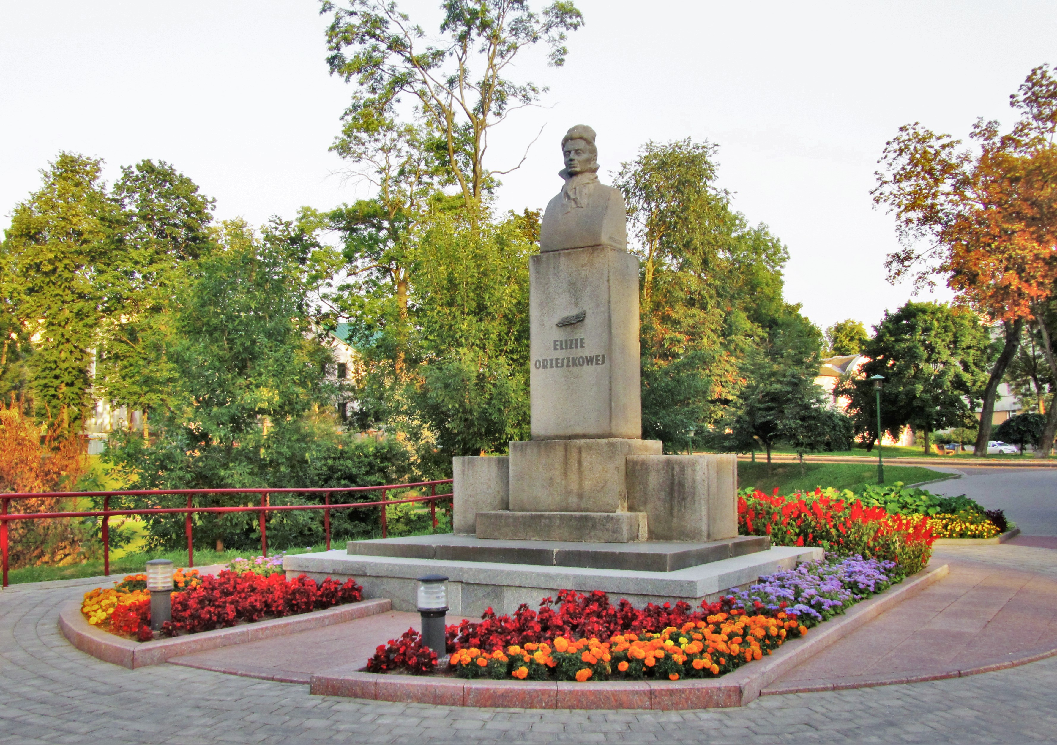 Беларуская (тарашкевіца): Бюст Э. Ажэшкі This is a photo of Belarusian heritage monument. Reference number: 413Ж000006 ( WLM)